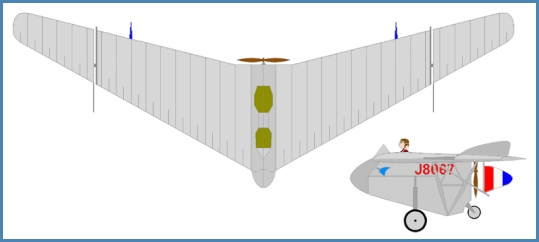 Westland-Hill-Pterodactylus 1a